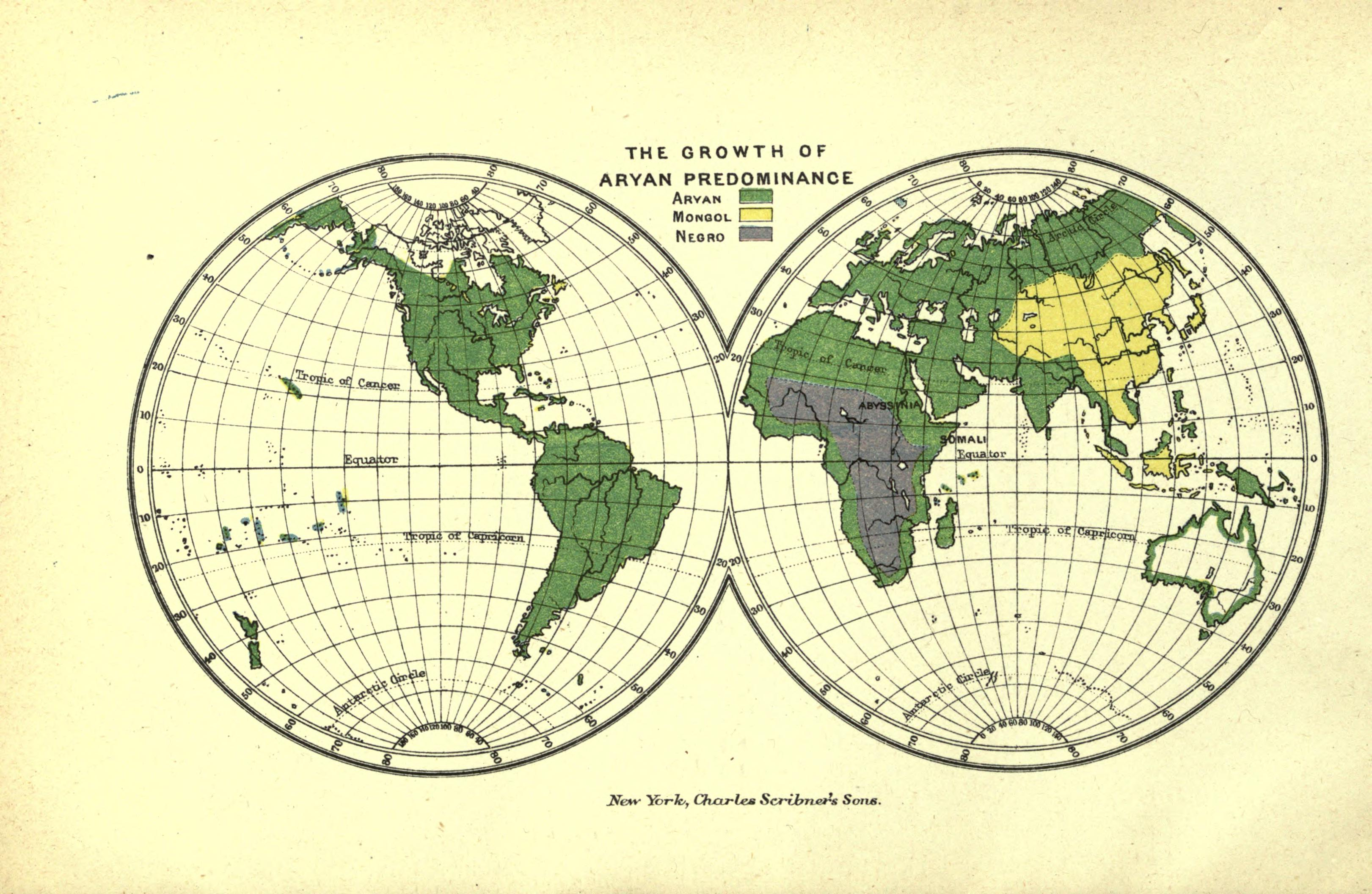 The Growth of Aryan Predominance